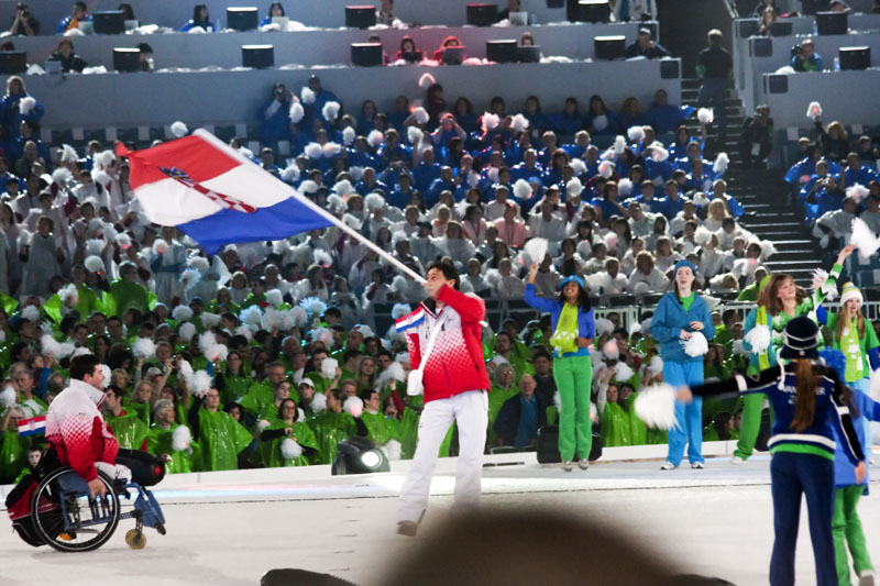 The flag bearer for Croatia, Maric Dadic, as the Croatian delegation is entering the stadium at the Opening Ceremony on March 12th, at the Winter Paralympics 2010 in Vancouver, Canada.